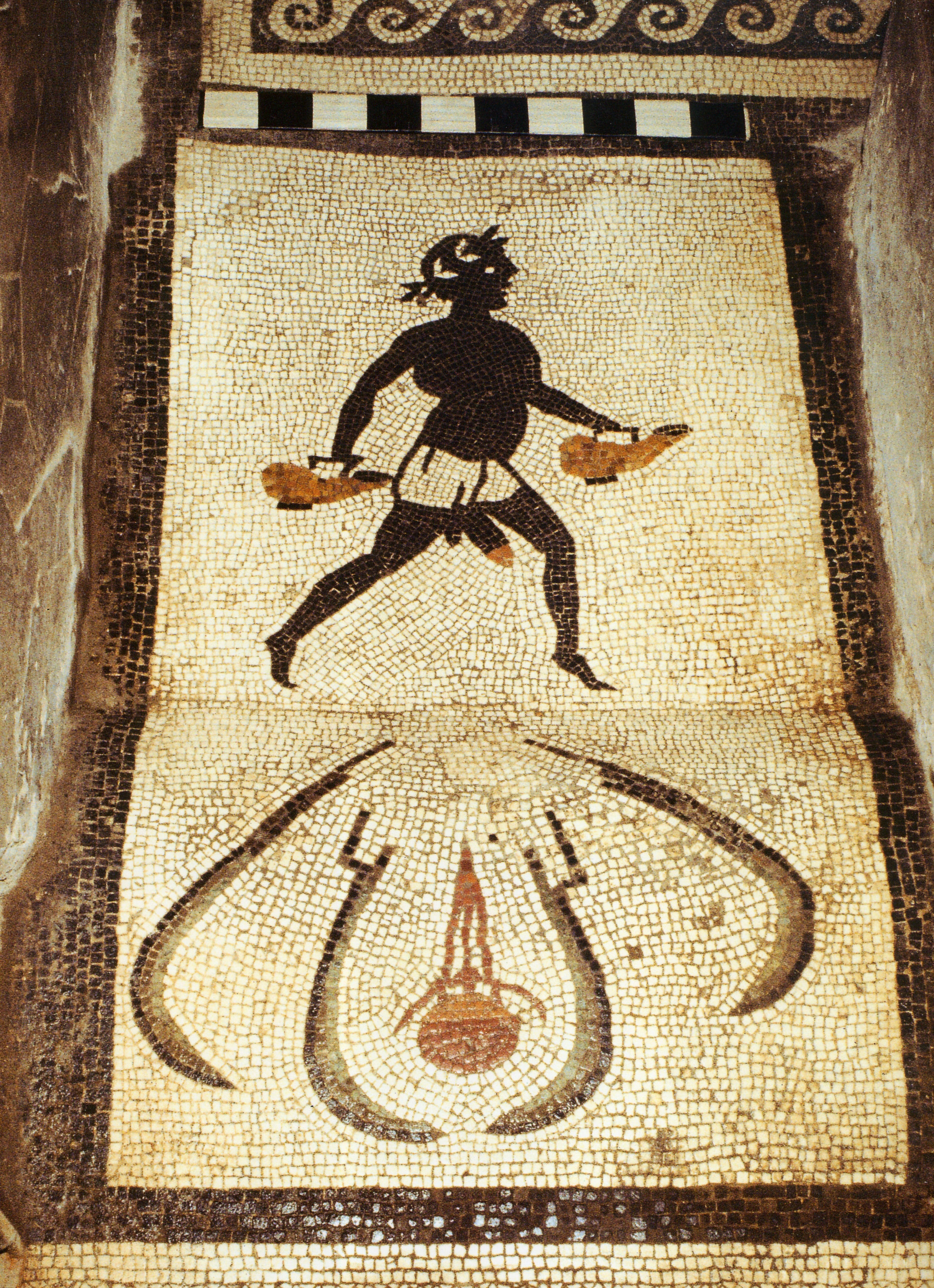 Roman Mosaic from the entrance to the caldarium in the House of Menander in Pompeii. Upper part showing black servant carrying water vessels, with an evident penis. Lower part showing an oil container framed by strigiles (oil scrapers), the arrangement suggesting female genitalia.